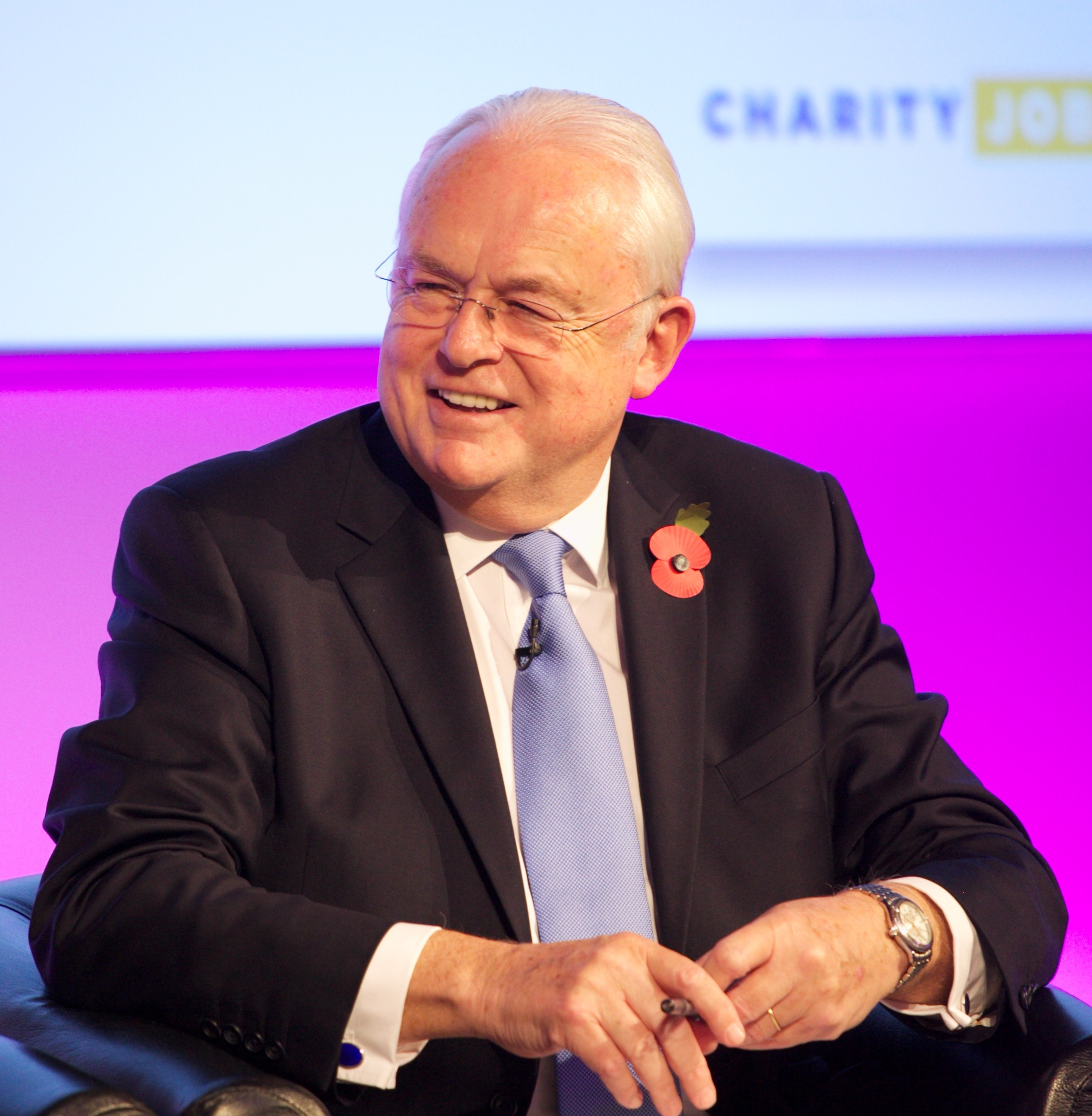 Martyn Lewis at NCVO conference